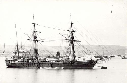 HMS Lily (1874), or possibly HMS Arab (1874), provided the photo was taken before 1879, when Arab (but not Lily received a poop deck). The same picture is used at the source website for both ships